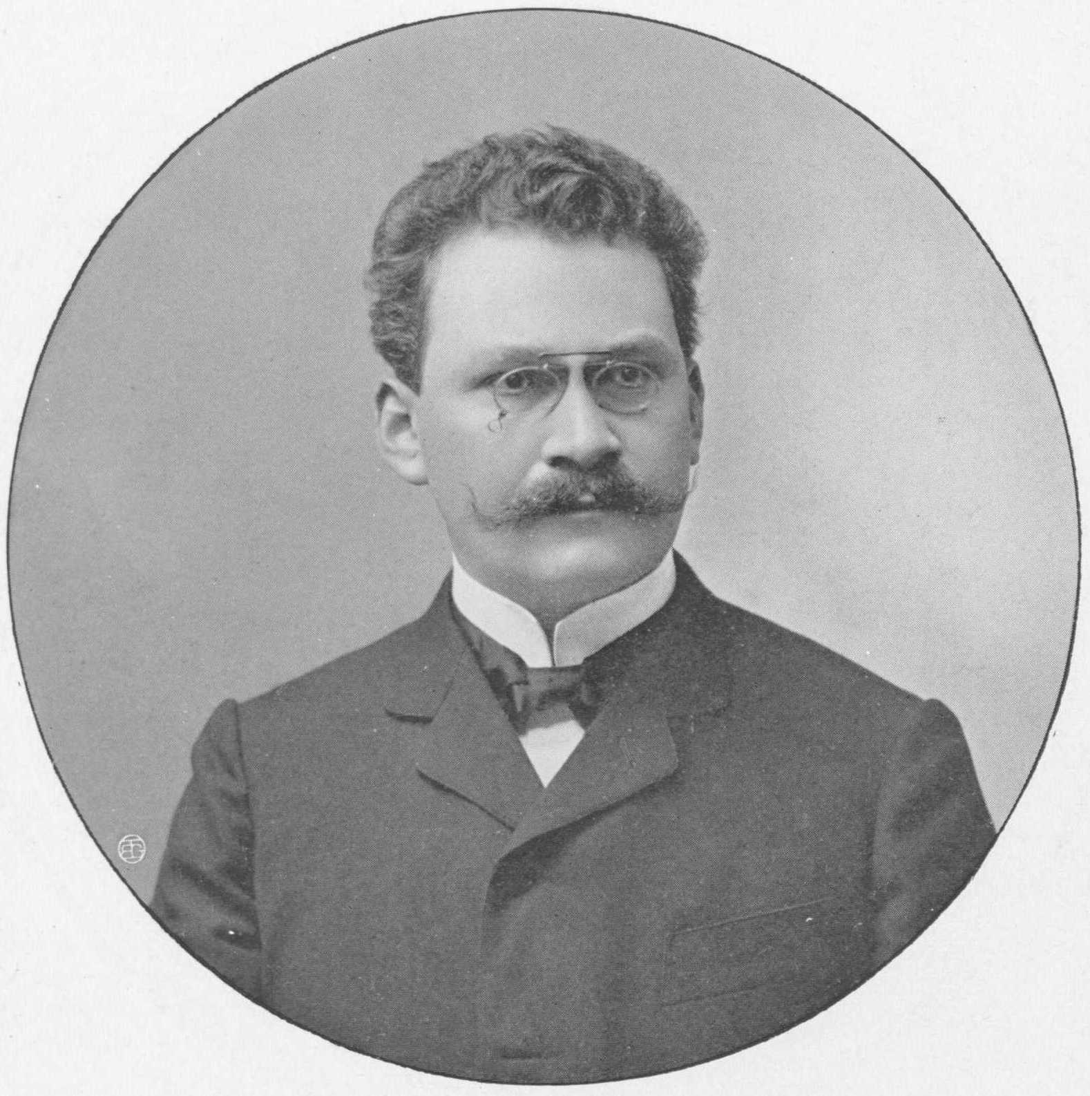 This is a detail of page 5 of the historical document: Title: Raum und Zeit (Jahresberichte der Deutschen Mathematiker- Vereinigung, Leipzig, 1909.)